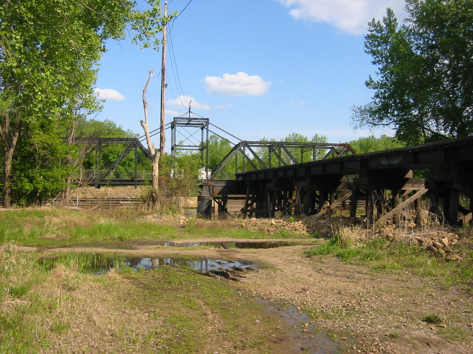 Dan Patch Line Bridge, a swing bridge on the Minnesota River in Bloomington, Minnesota.